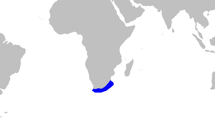 Distribution map for Halaelurus natalensis